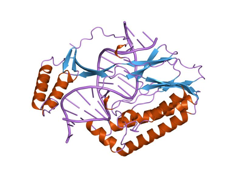 Cartoon representation of the molecular structure of protein registered with 1ecr code.